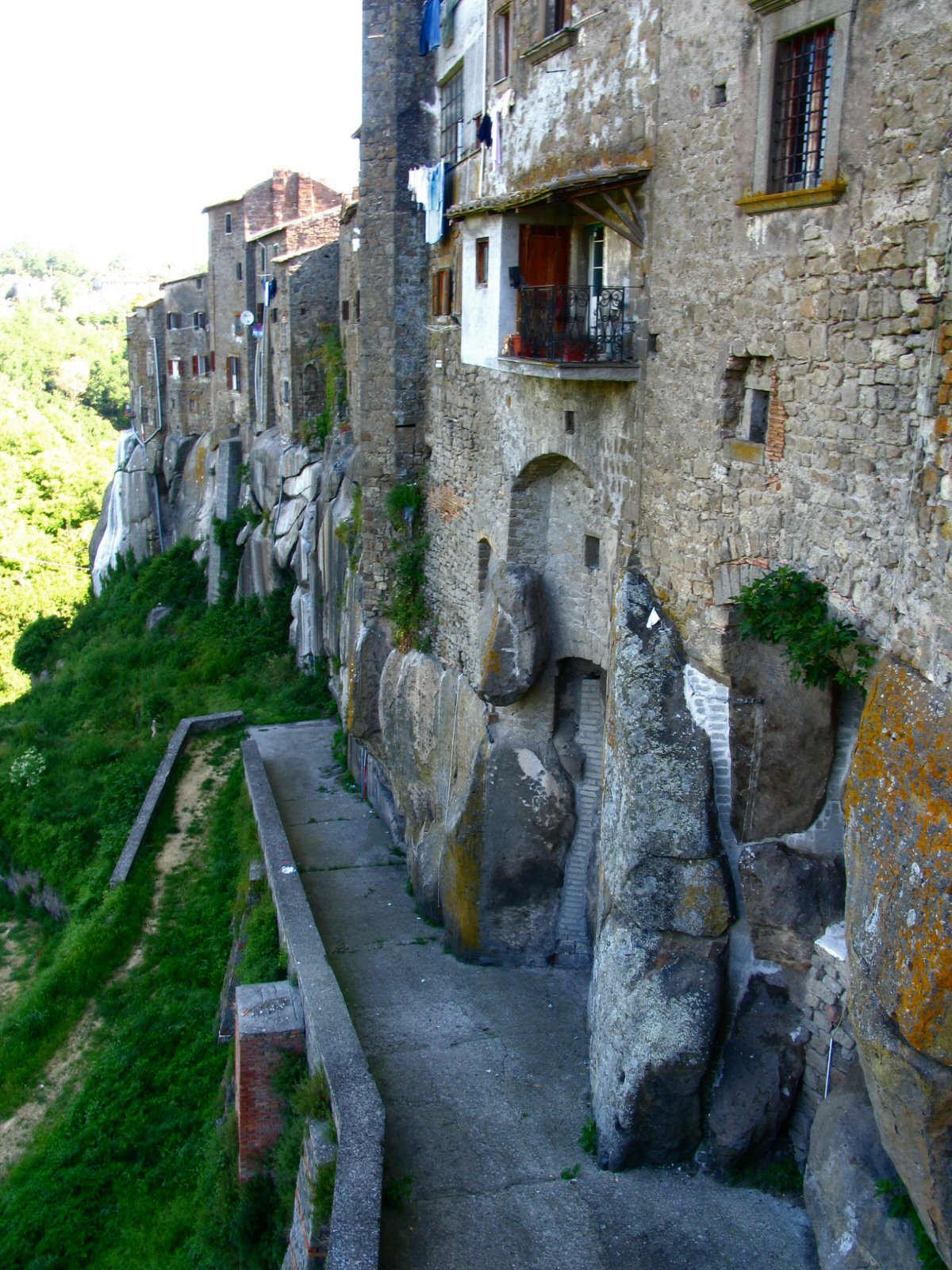 Vitorchiano, Lazio, ItaliaVitorchiano 074, look how medieval builder built there houses